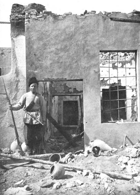 Armenian house plundered during the Armeno-Tatar clashes